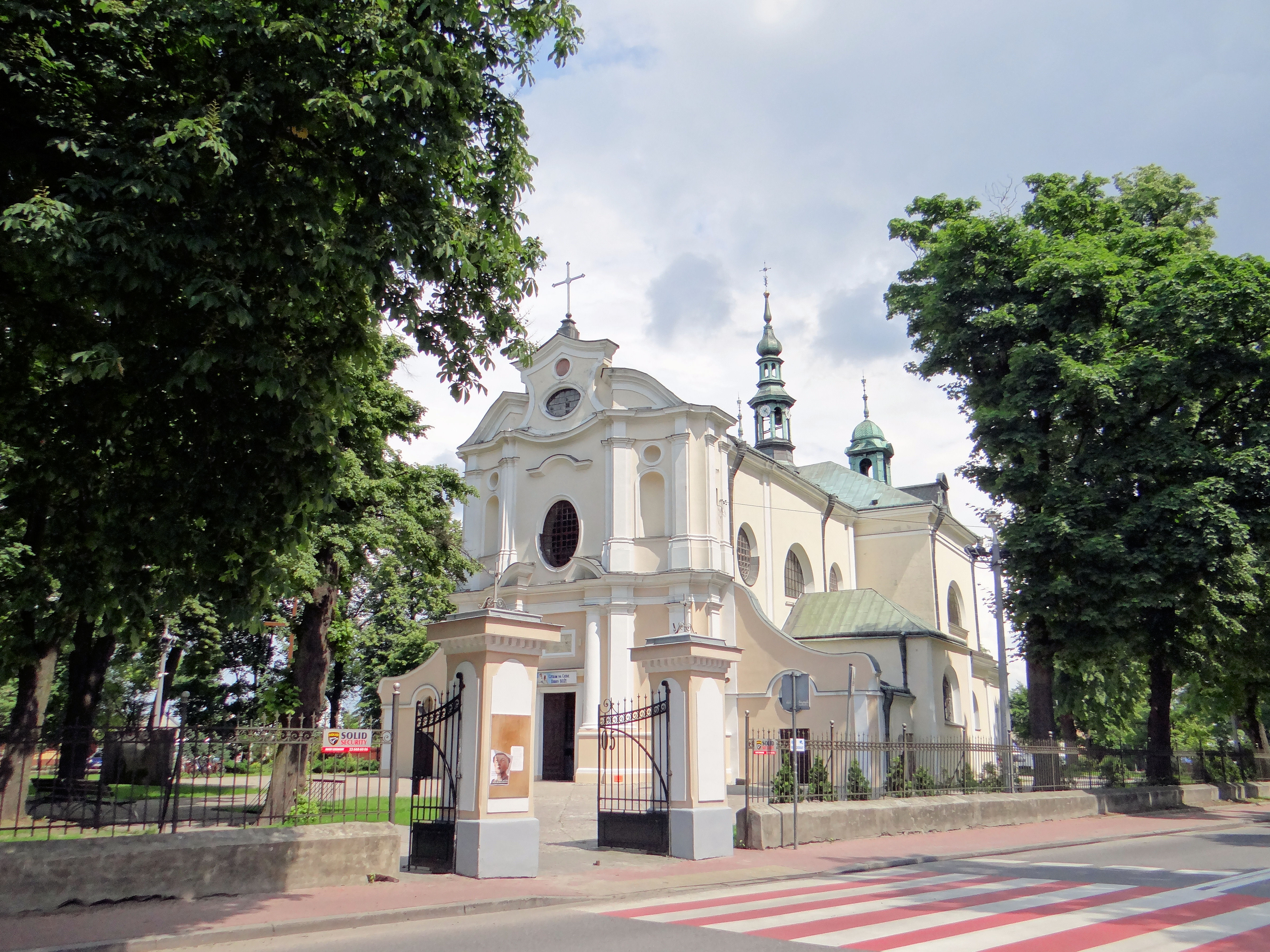 Saint Vitus church in Karczew